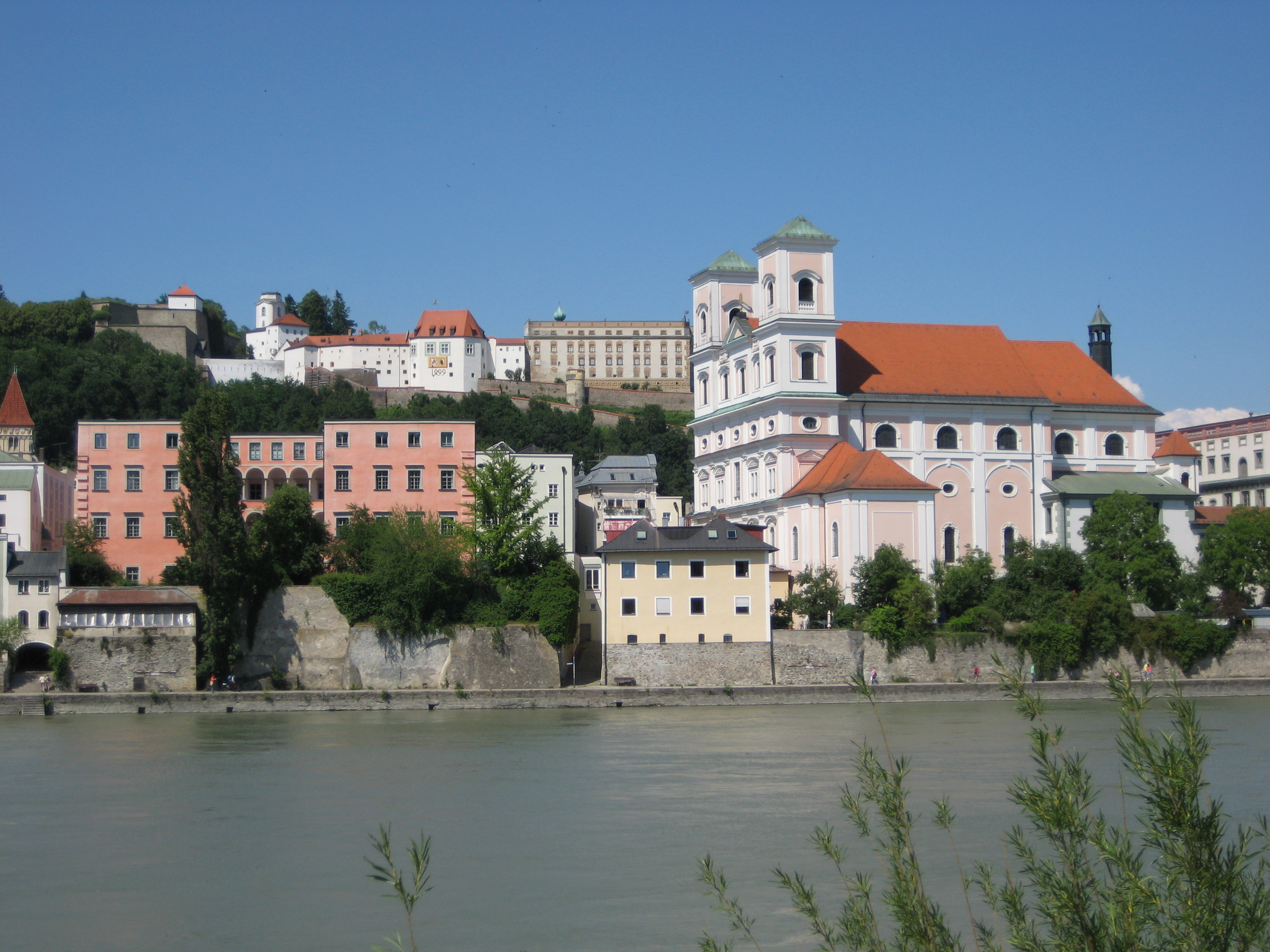 Church St. Michael and Veste Oberhaus, Passau